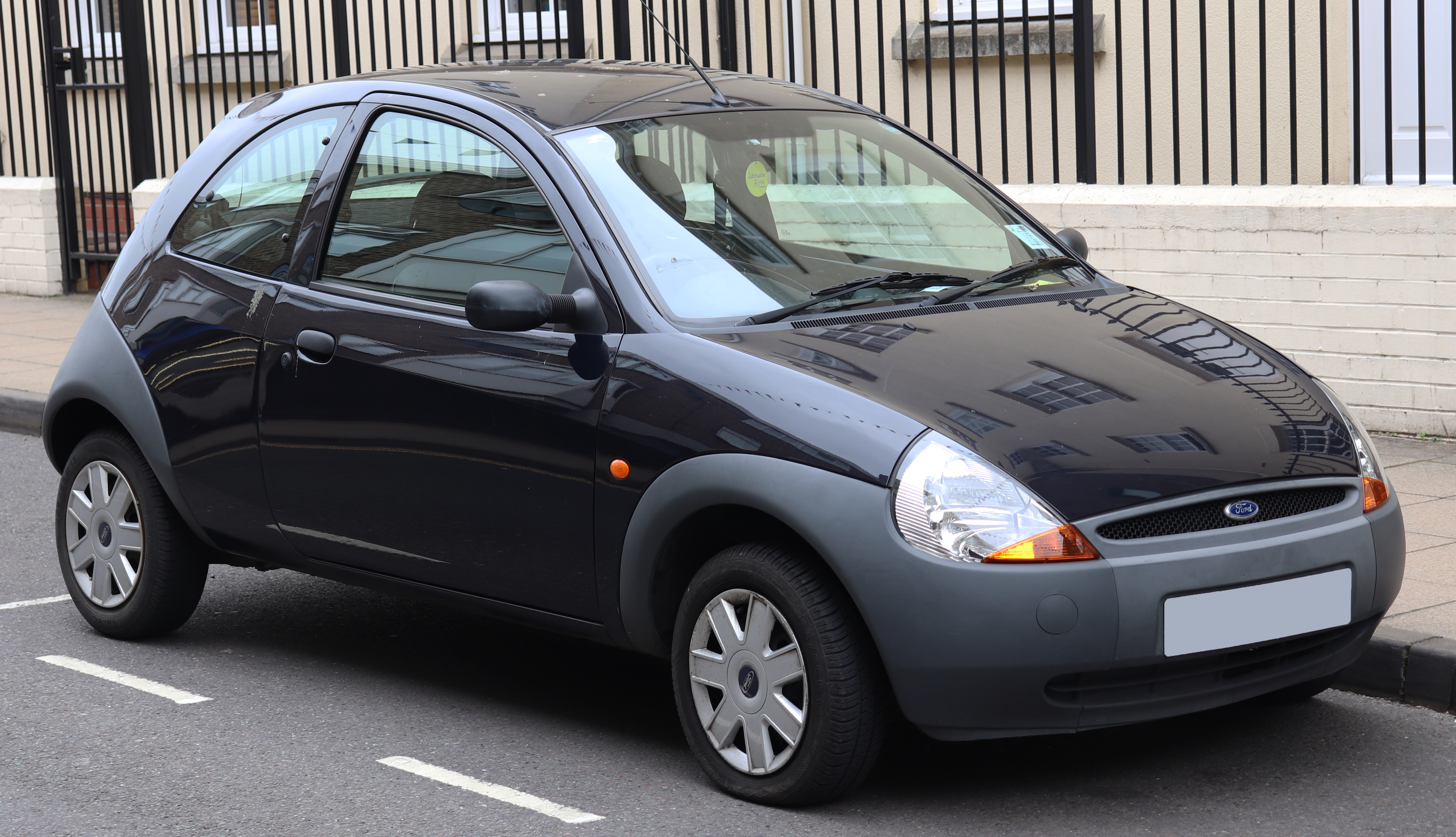 2007 Ford KA Studio 1.3 Front Taken in Warwick